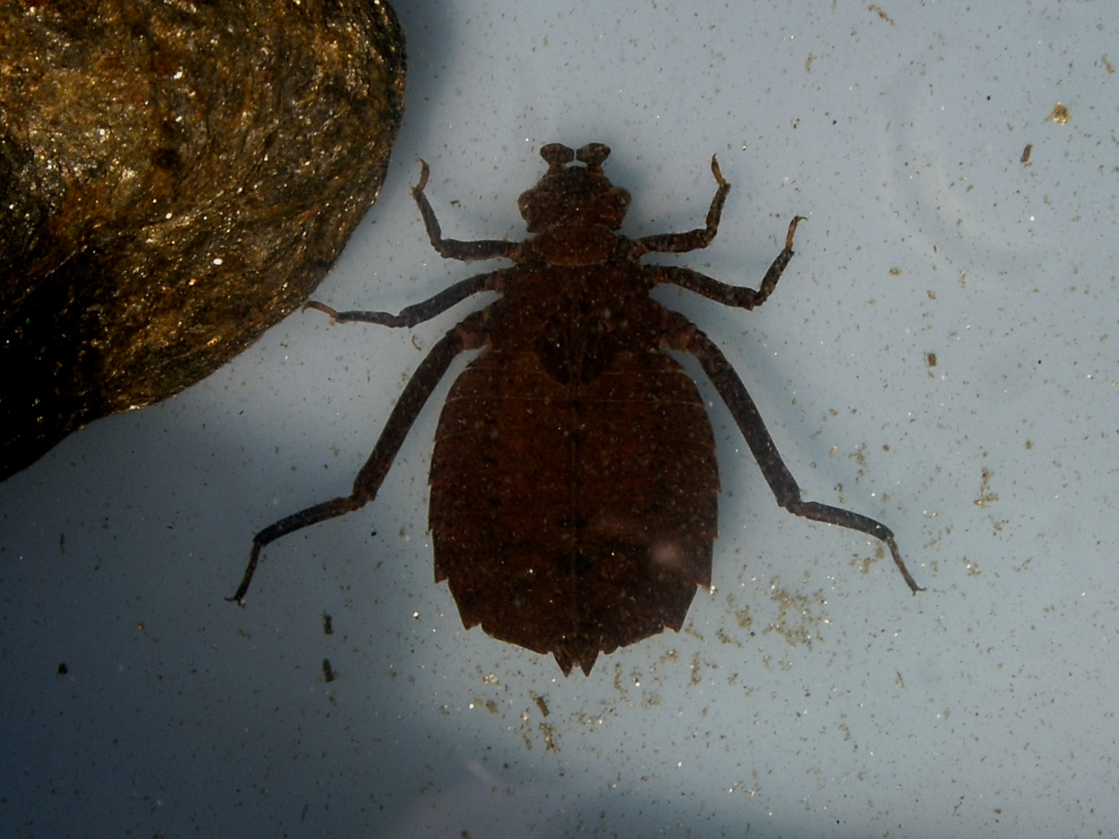 Sieboldius albardae Sélys, 1886. Larva, at Nagasaki.